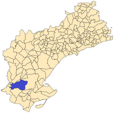 Roquetes